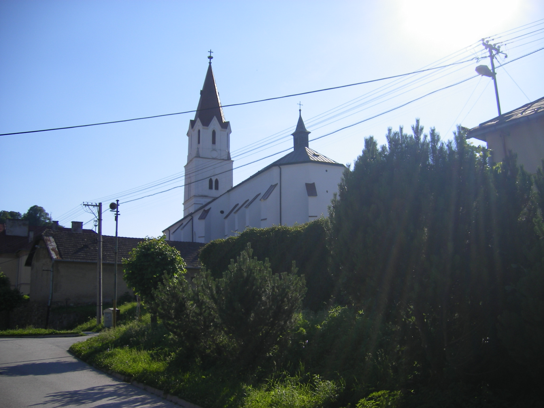 Gelnica, Catholic church